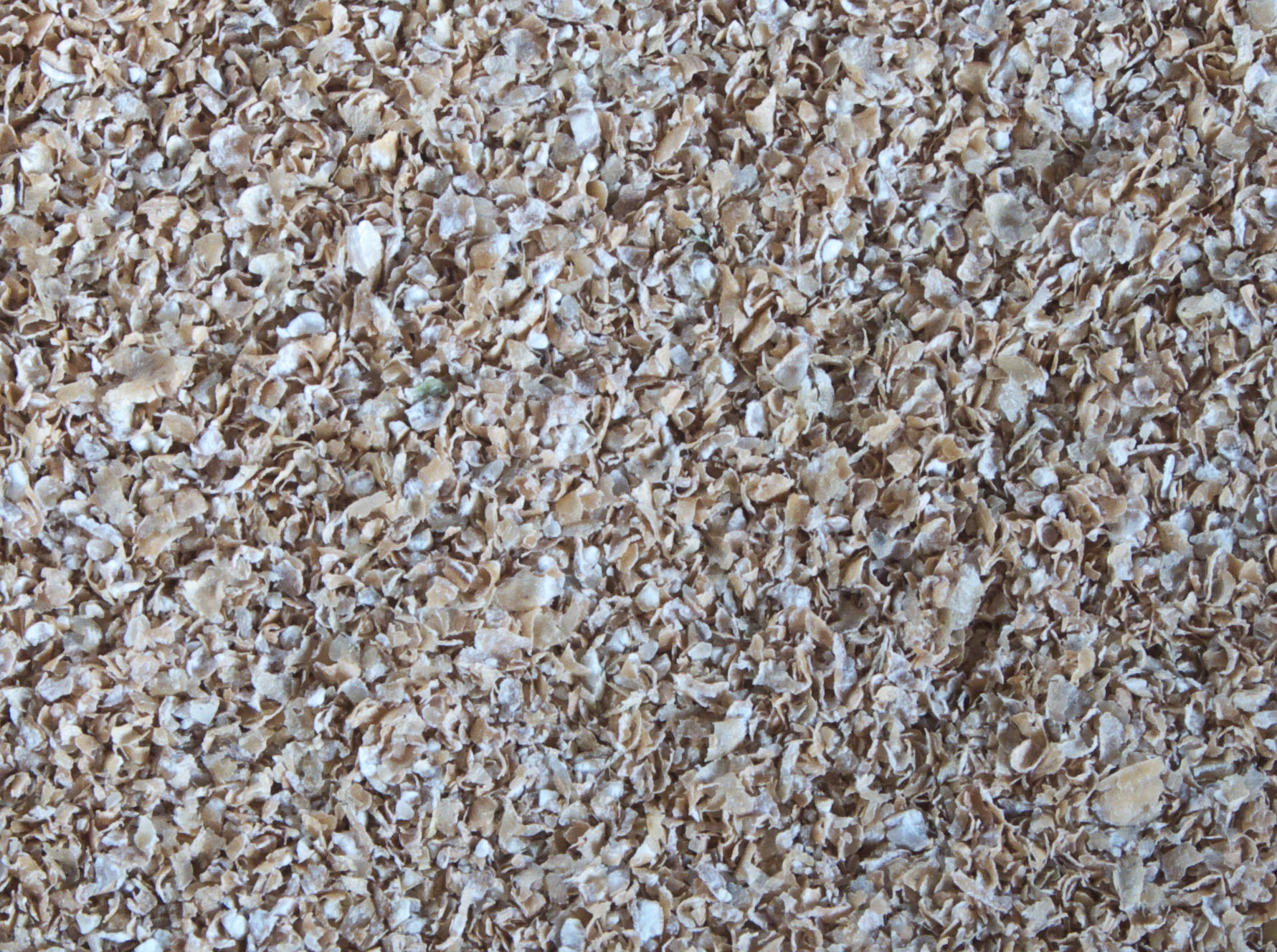 Wheat bran of Triticum aestivum